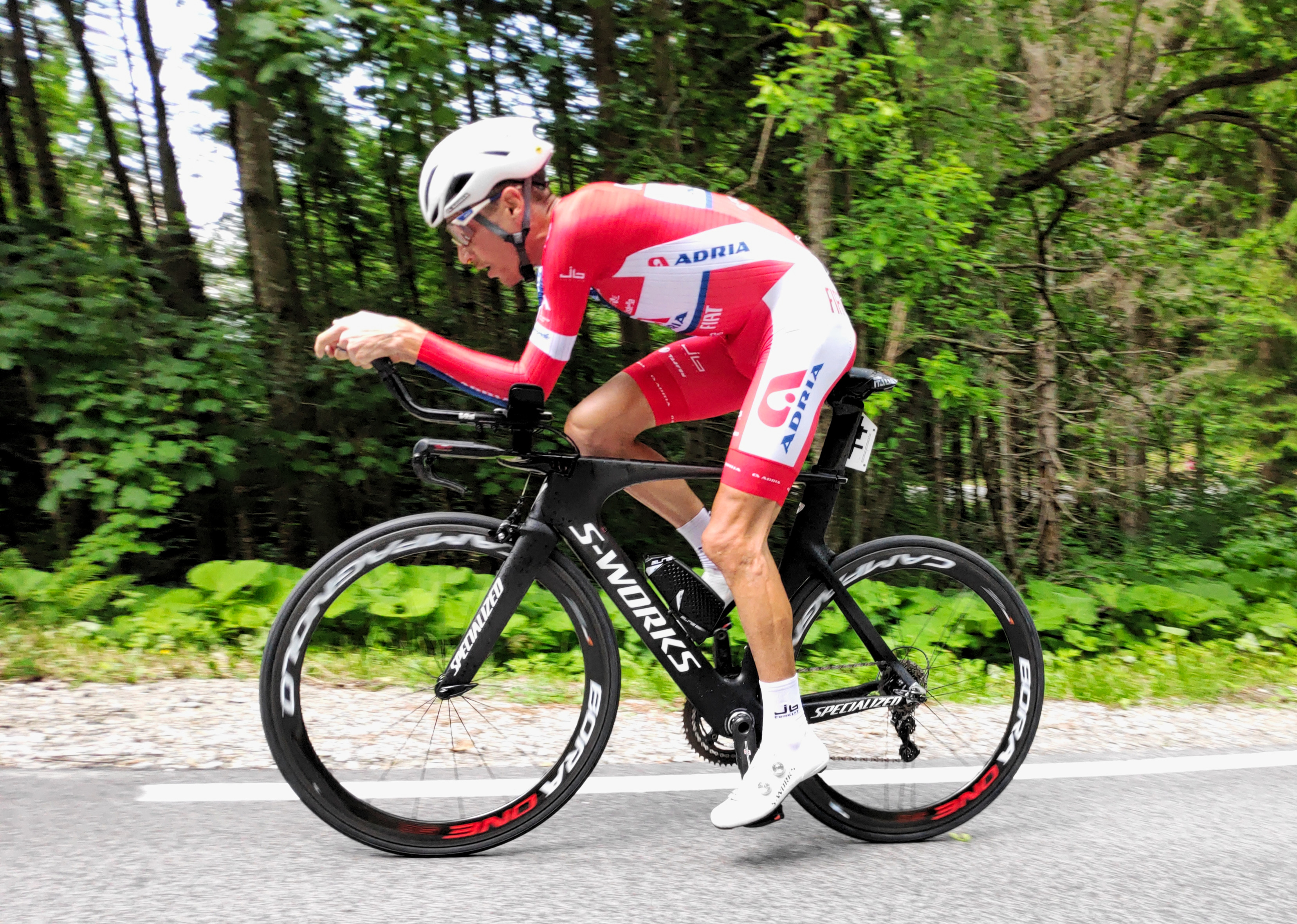 Jani Brajkovič (2020 Slovenian National Time Trial), Team Adria Mobile